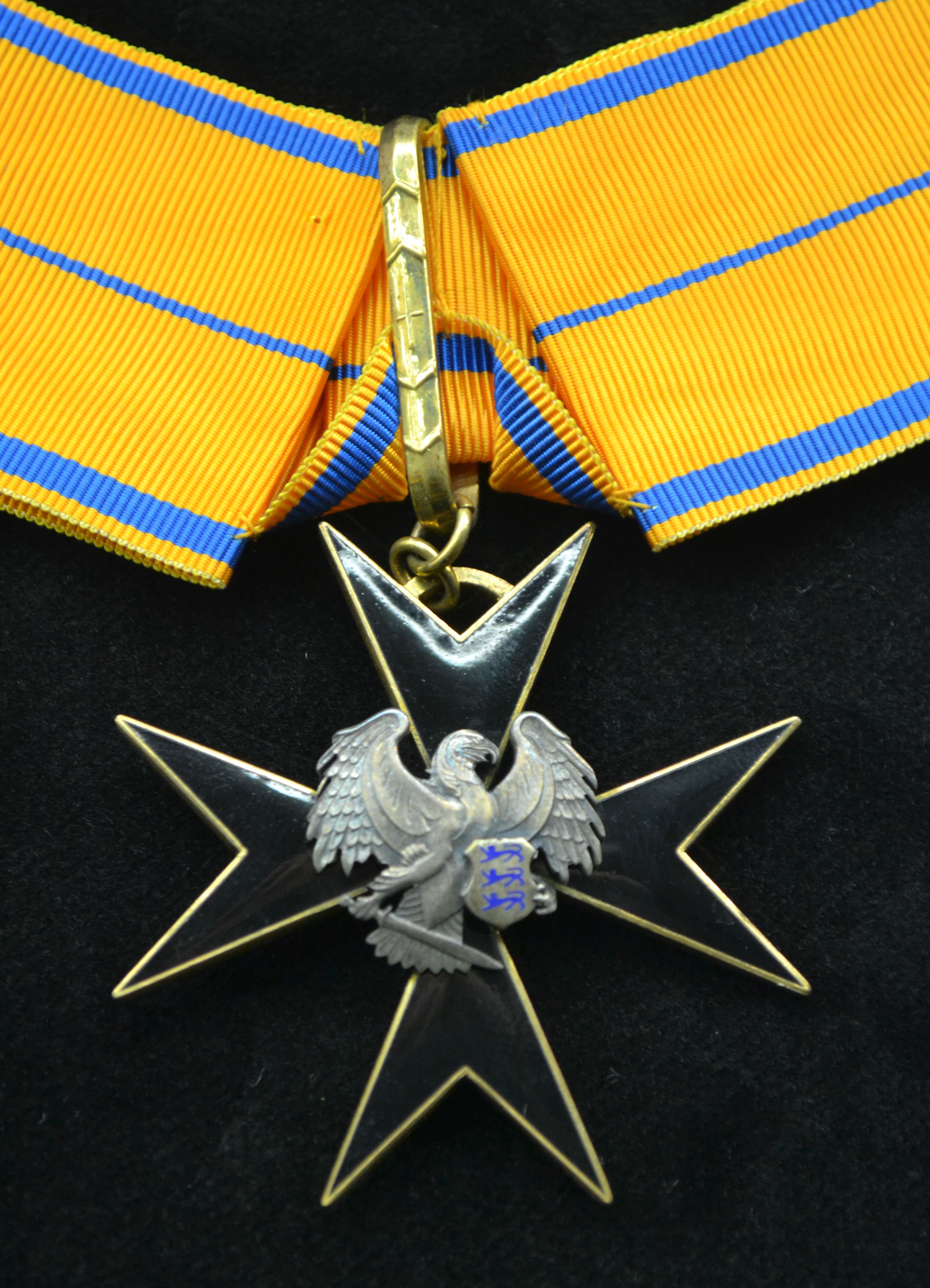 Estonia. Order of the Cross of the Eagle 3rd class, badge and ribbon. The exhibition of the Estonian State Decorations at the National Library of Estonia in Tallinn.